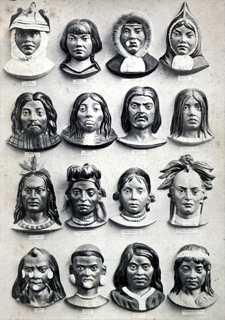 Karl Ernst von Baer: "Types Principaux des Differentes Races Humaines, dans les cinq parties du Monde" (Principal types of different human races in the five parts of the world). From a brochure with 4 p., 5 l. with 5 original albumen photographs. 23 x 16 cm (48 x 32 cm). St. Petersburg, German St. Petersbourg Times, 1862.